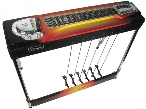 Fender 800